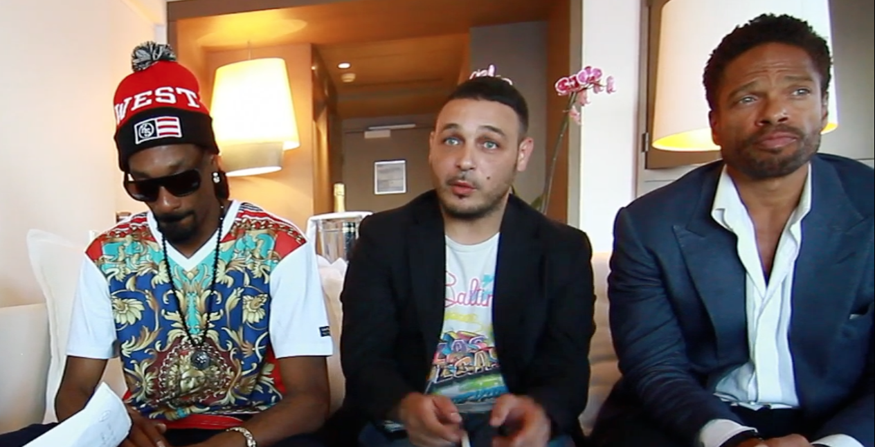 Kader Ayd, Snoop Dogg et Gary Dourdan au festival de Cannes 2014